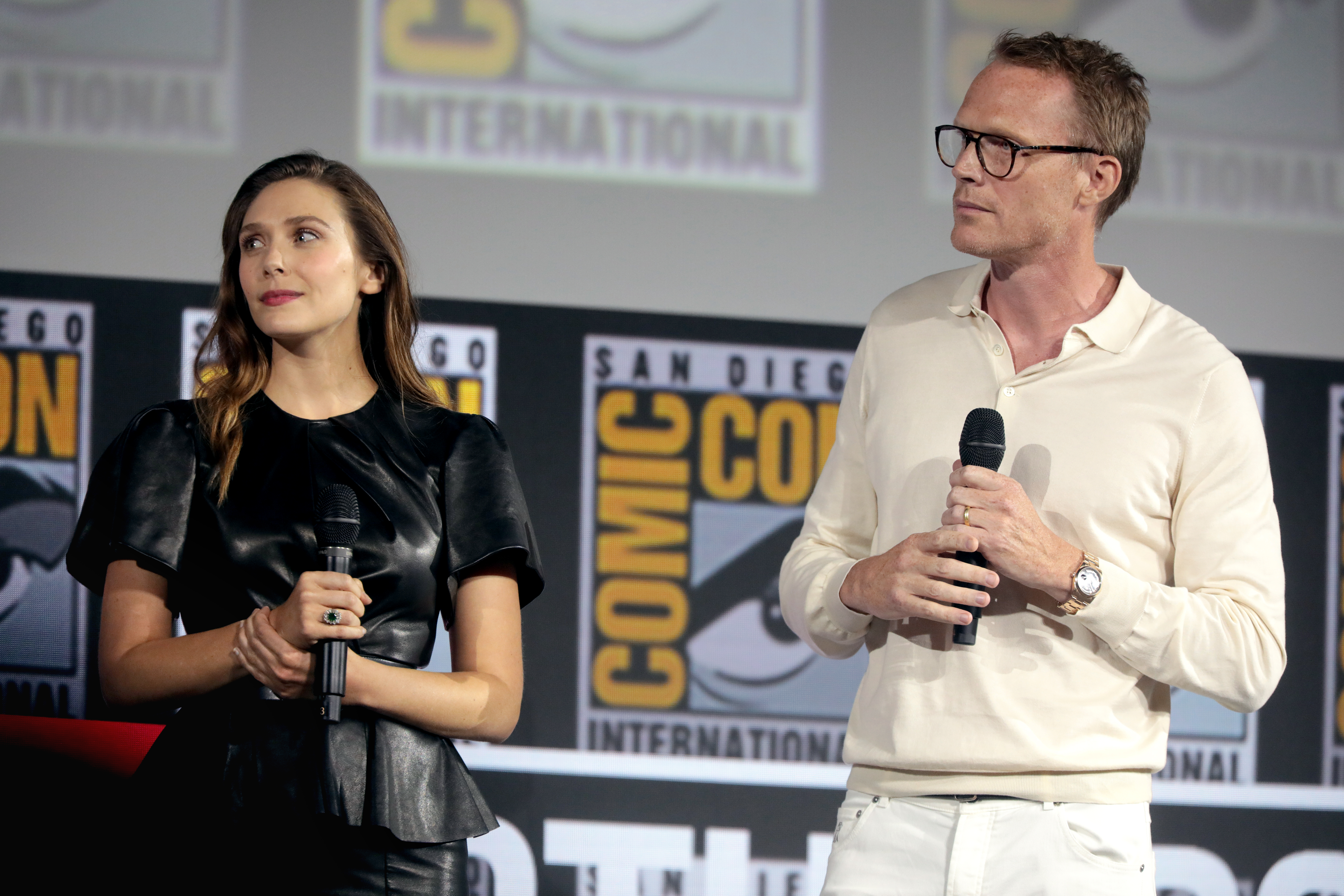 Elizabeth Olsen and Paul Bettany speaking at the 2019 San Diego Comic Con International, for "WandaVision", at the San Diego Convention Center in San Diego, California.